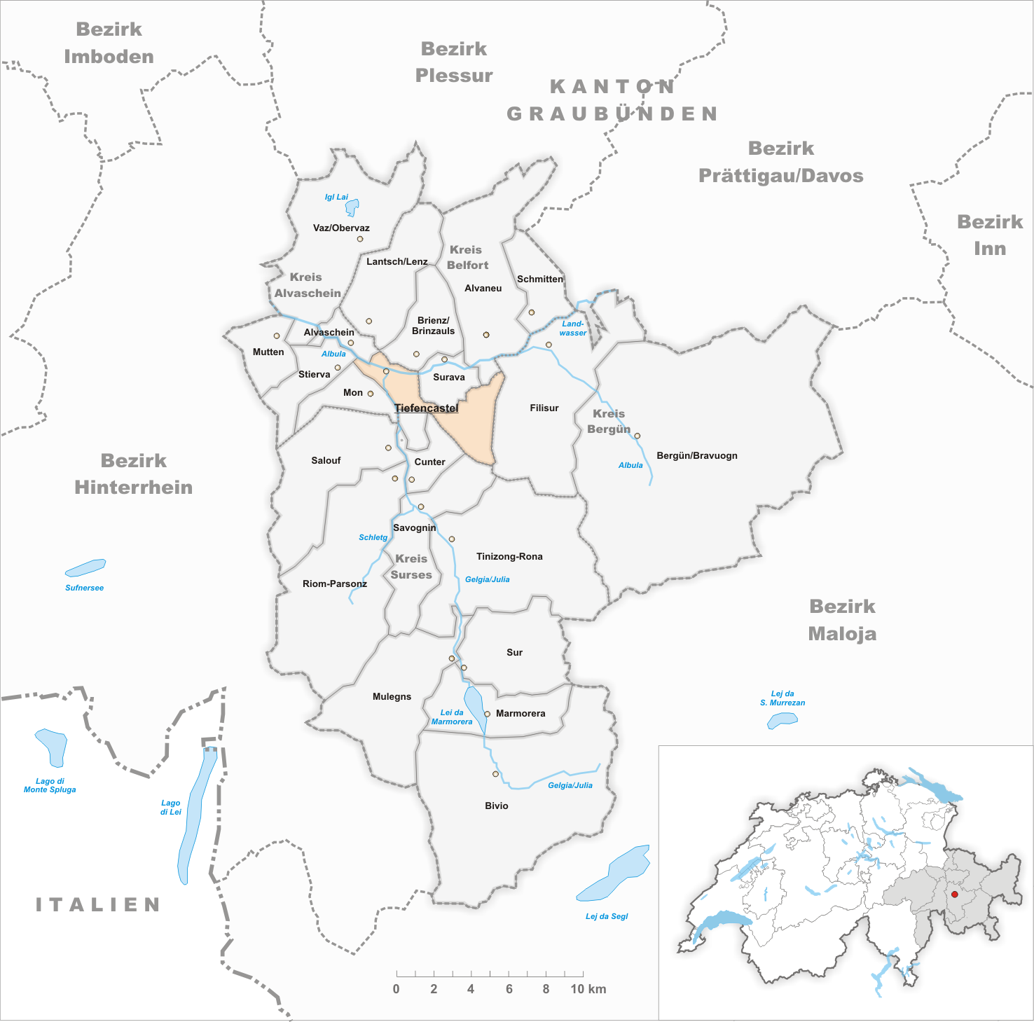 Municipality Tiefencastel